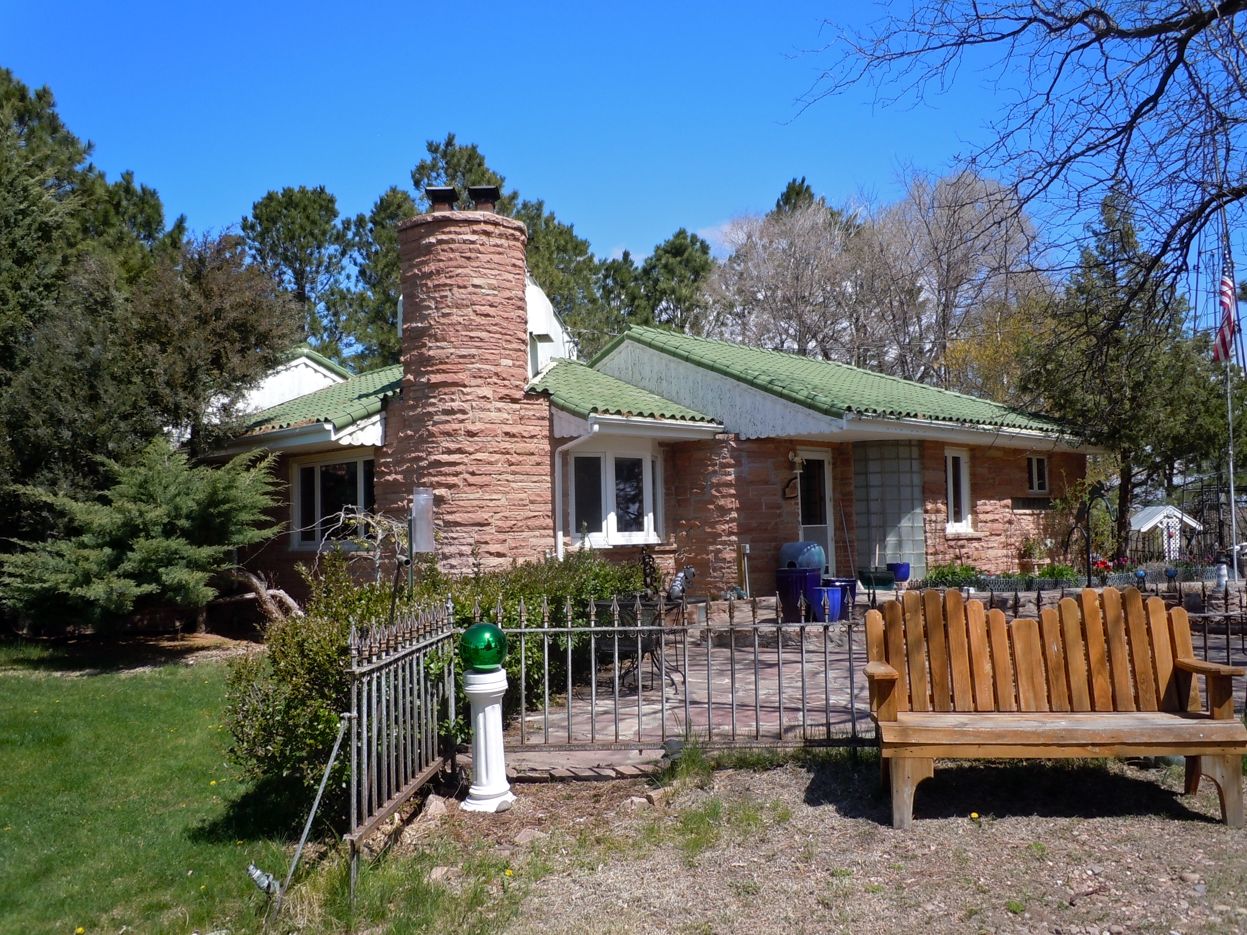 Dr. Burdette and Myrna Gainsforth House on the NRHP since December 5, 2002. At 1300 East A St.,Ogallala, Keith County, Nebraska. At the edge of town, fairly modern building, nice couple live there (not the Gainsforths!)